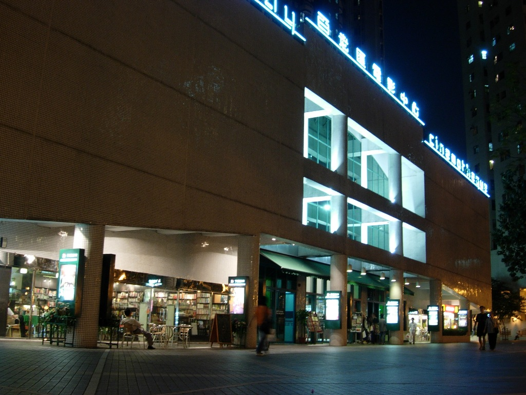 Broadway Cinematheque